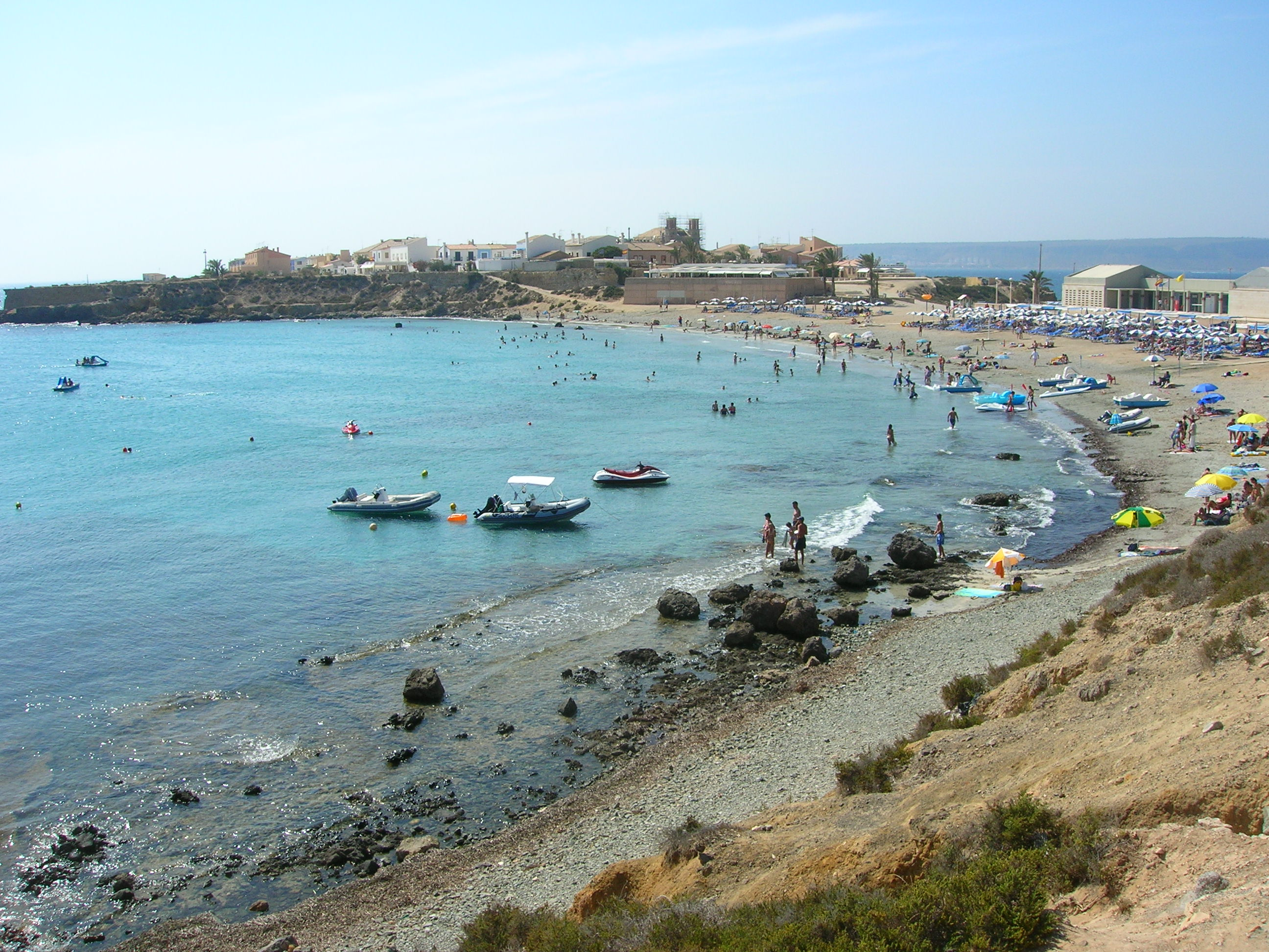 A view of Tabarca in Alicante province, Spain. Photo by Jason Nordmark